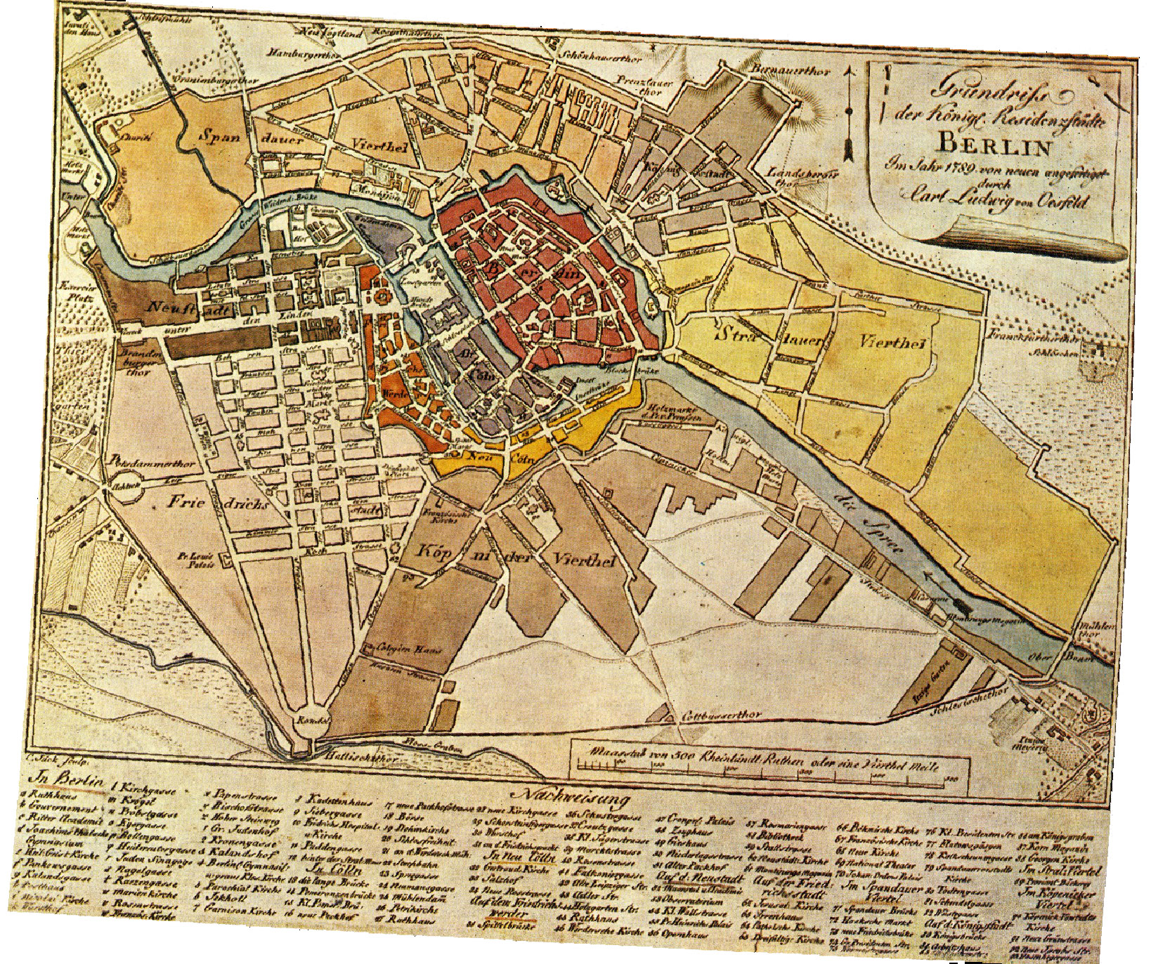 Map of seat of royal power Berlin from 1789, coloured copper engraving.